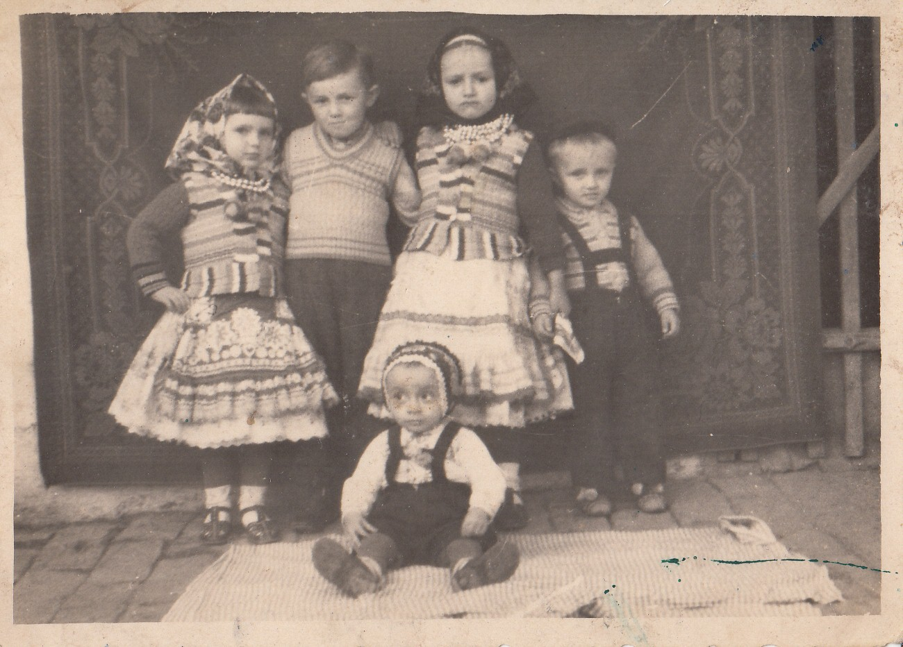 A photograph of Slovak children from Selenča (Vojvodina, Serbia) in traditional and civilian clothes (1954). Srpski (latinica): Fotografija slovačke dece iz Selenče u tradicionalnoj i građanskoj odeći (1954).